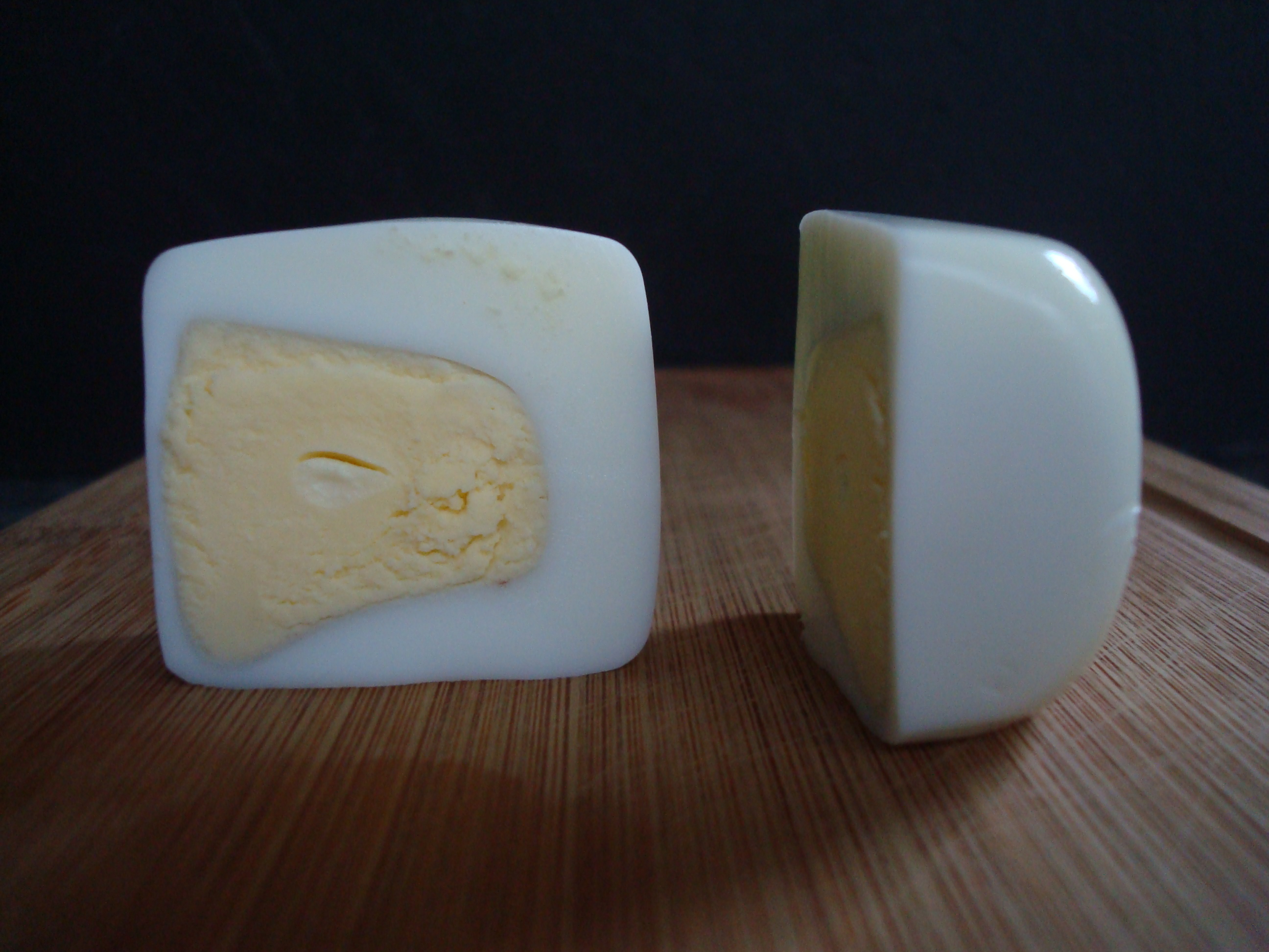 Cubic egg cut in half